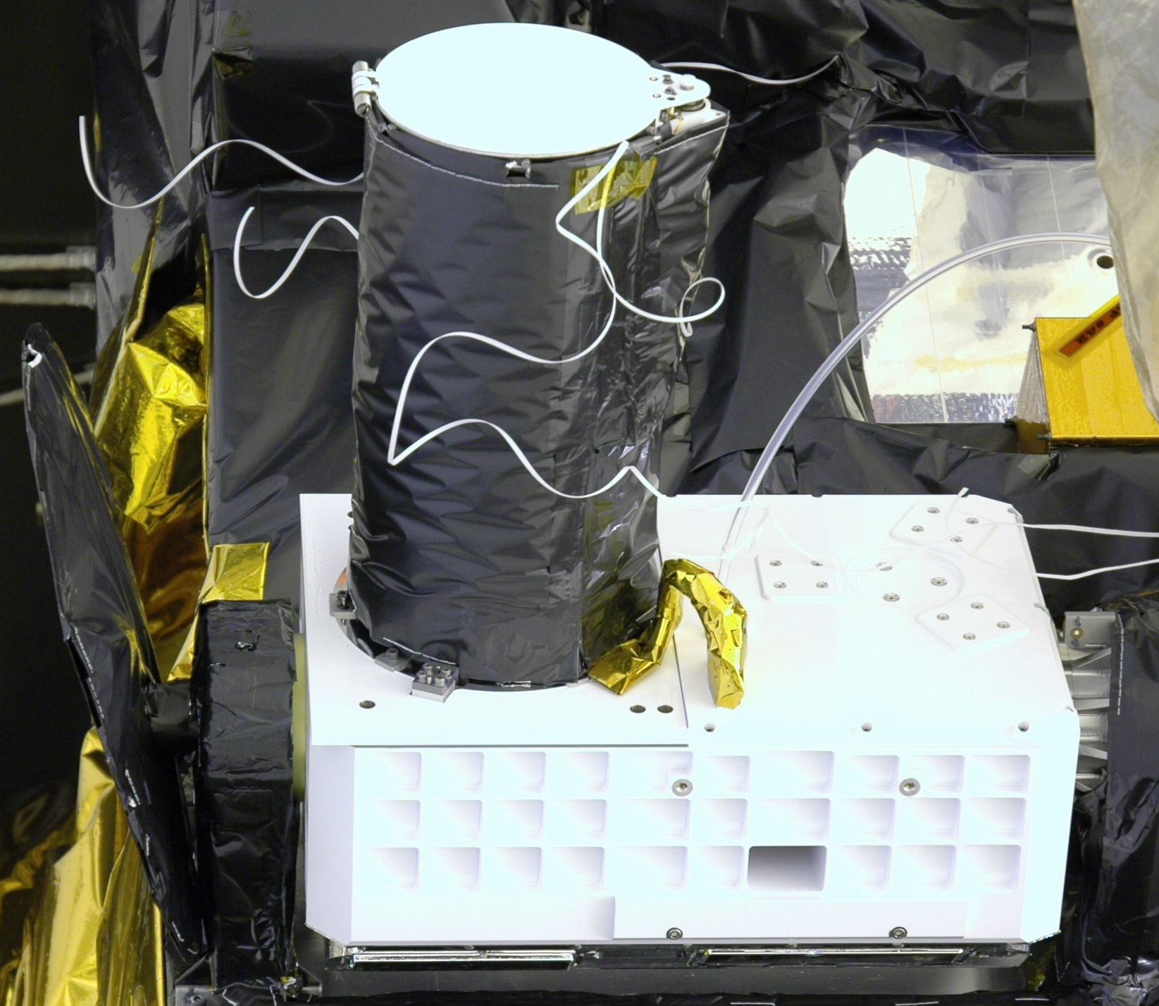 CRISM, the first visible-infrared spectrometer to fly on a NASA Mars mission, will look for the residue of minerals that form in the presence of water – the “fingerprints” left by evaporated hot springs, thermal vents, lakes or ponds. The Johns Hopkins University Applied Physics Laboratory (APL) in Laurel, Md., led the effort to develop, test and integrate CRISM. Principal Investigator Scott Murchie, of APL, leads the CRISM project.